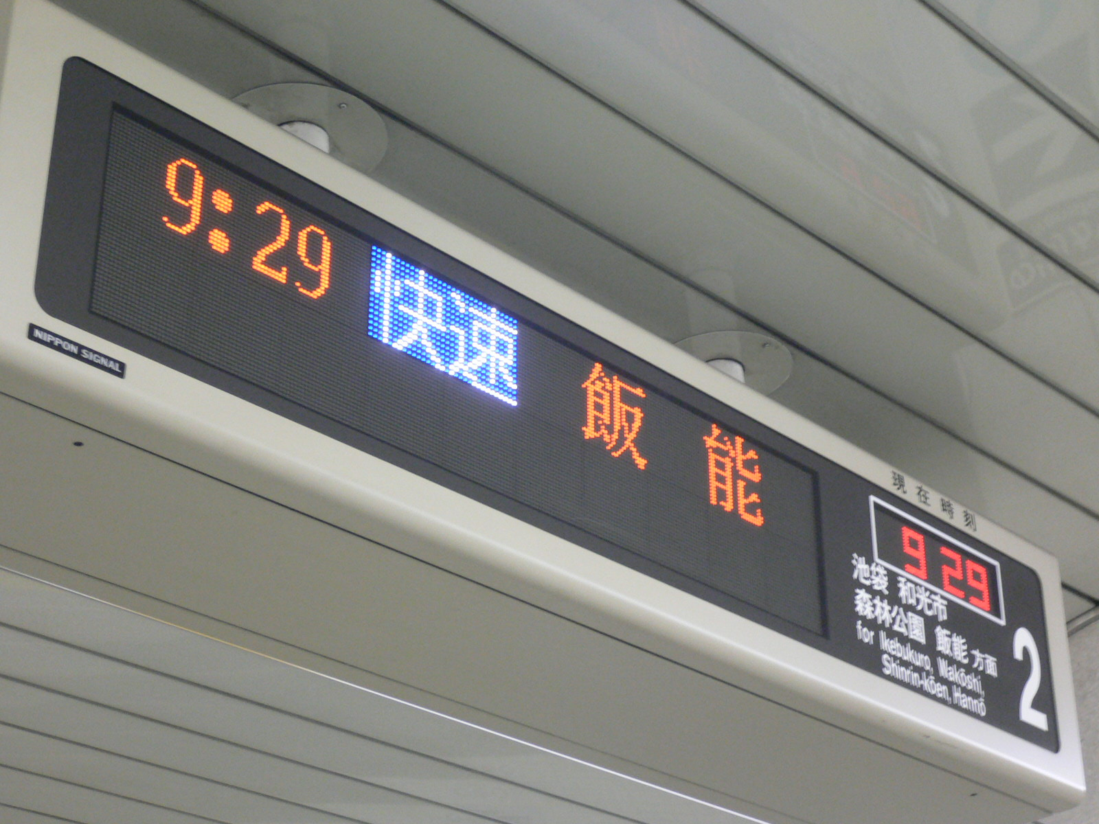 An LED Train Schedule Display Board in Ichigaya Station